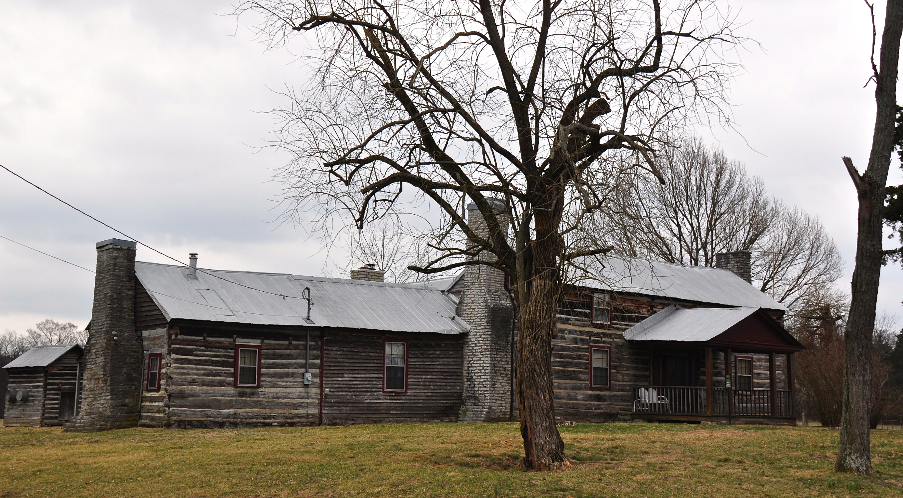 Located near Christiana, Rutherford County, Tennessee. Listed on the NRHP on 27 December 1979.